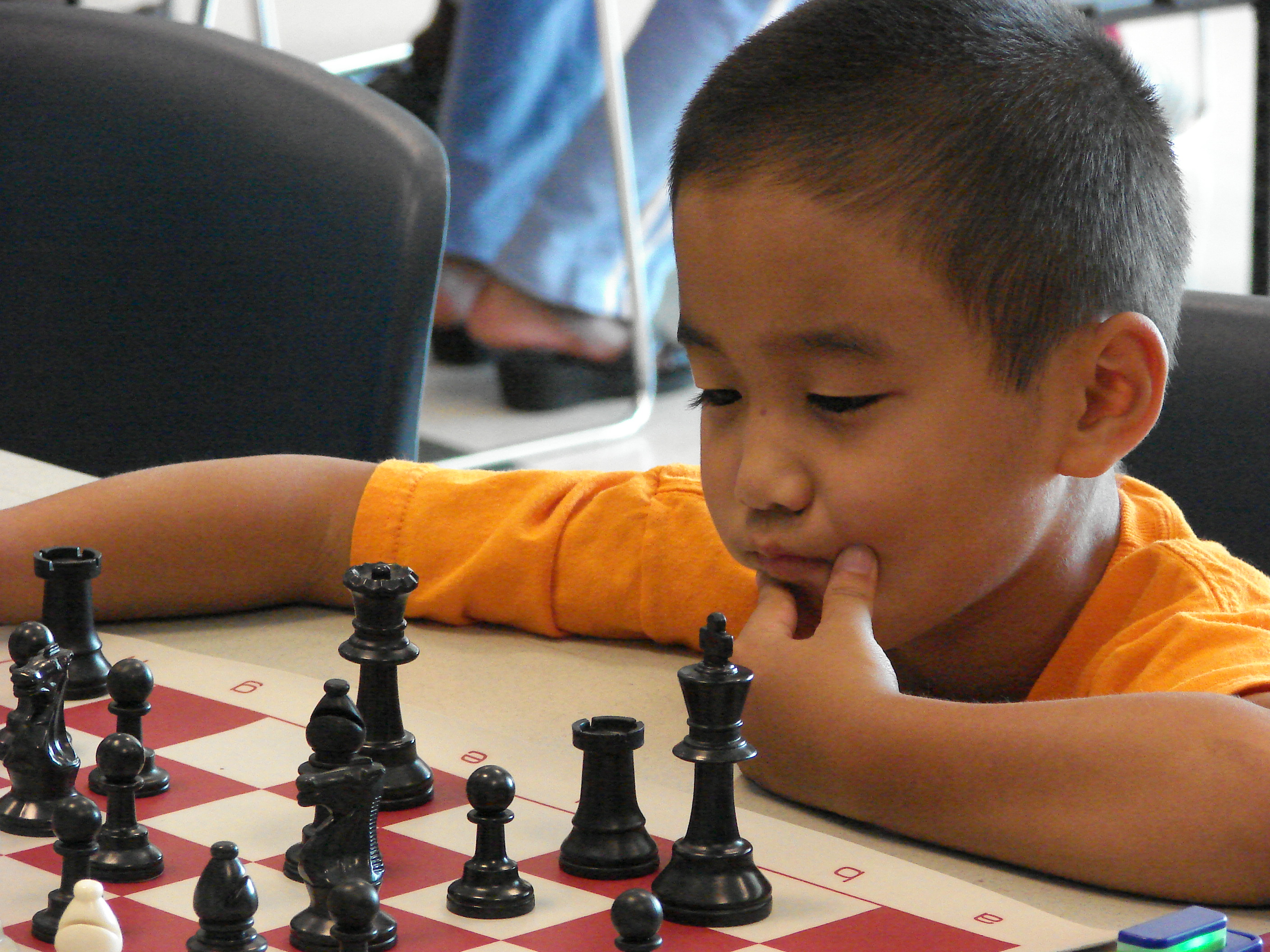 Pensive young chess player.